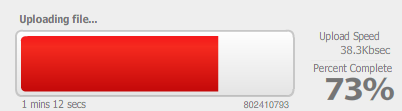 Uploading a file to